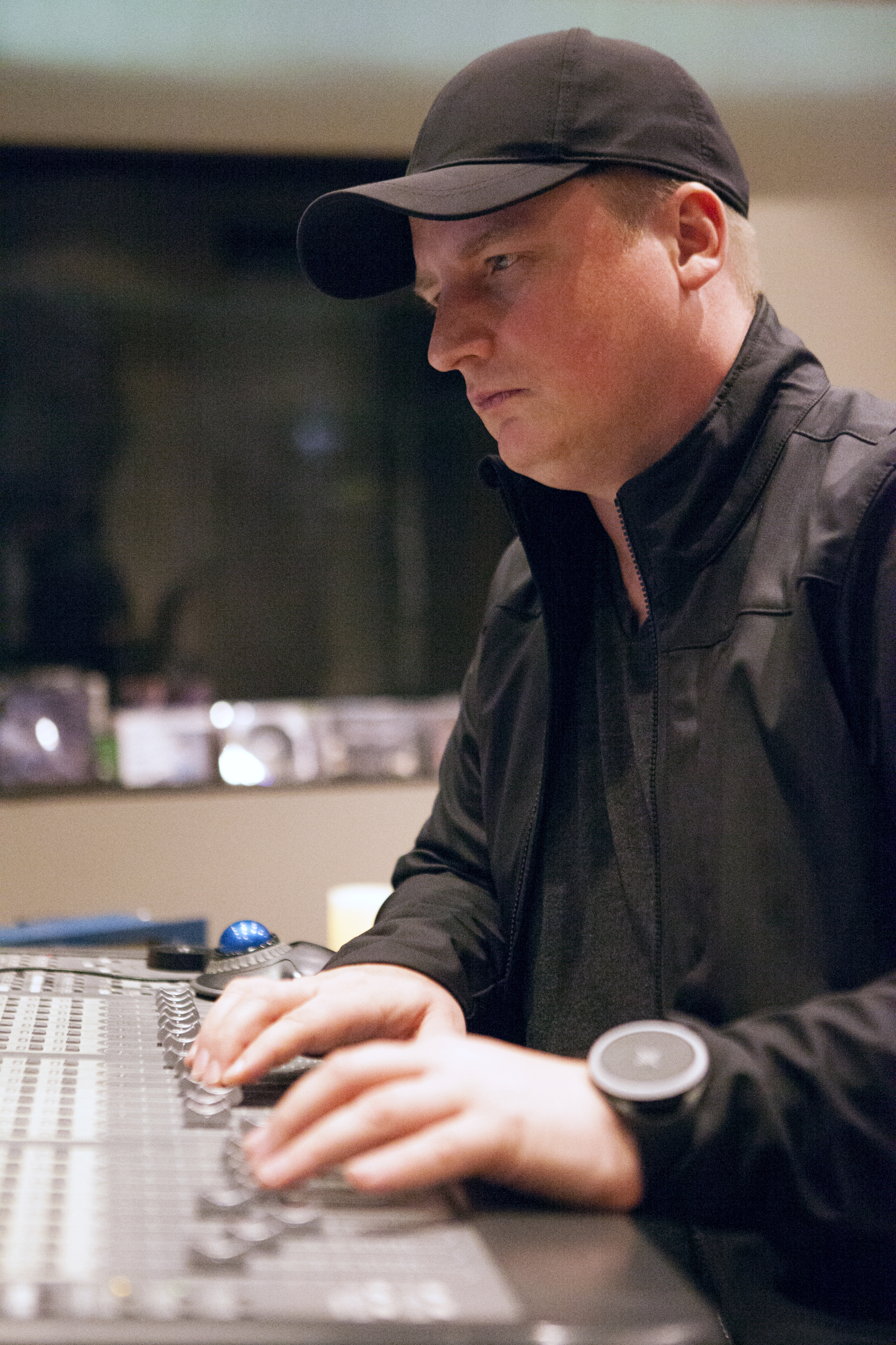 Richard Furch at his Encino studio Mix Haus